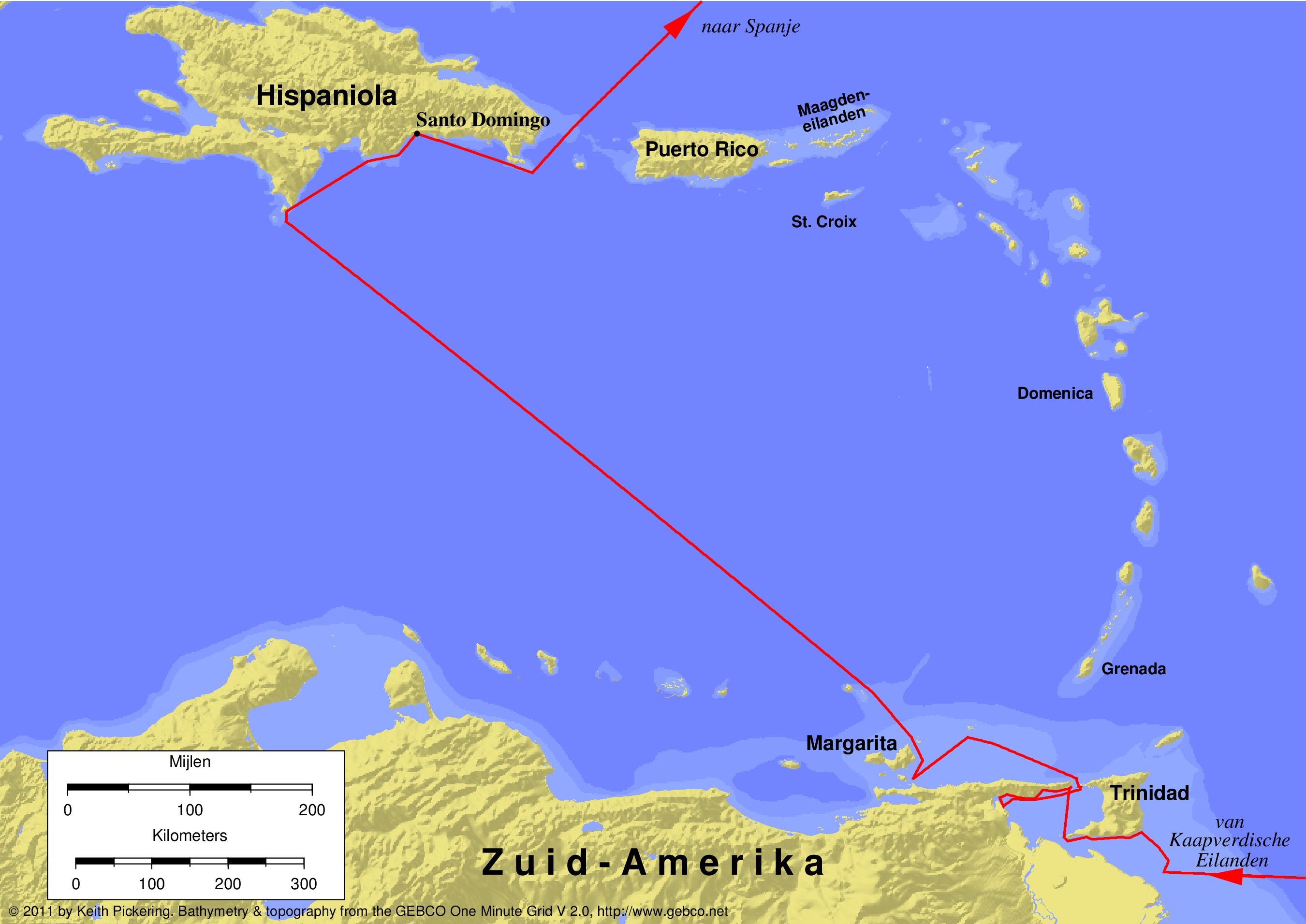 Map of the third voyage of Christopher Columbus